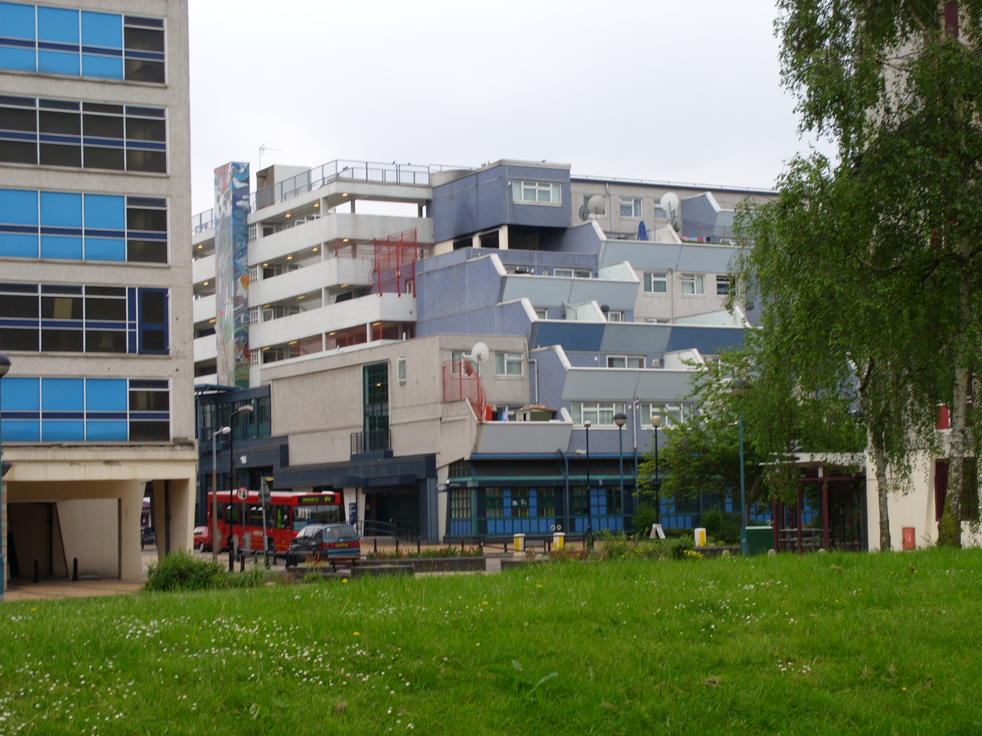 Tangmere Building, Broadwater Farm, London N17